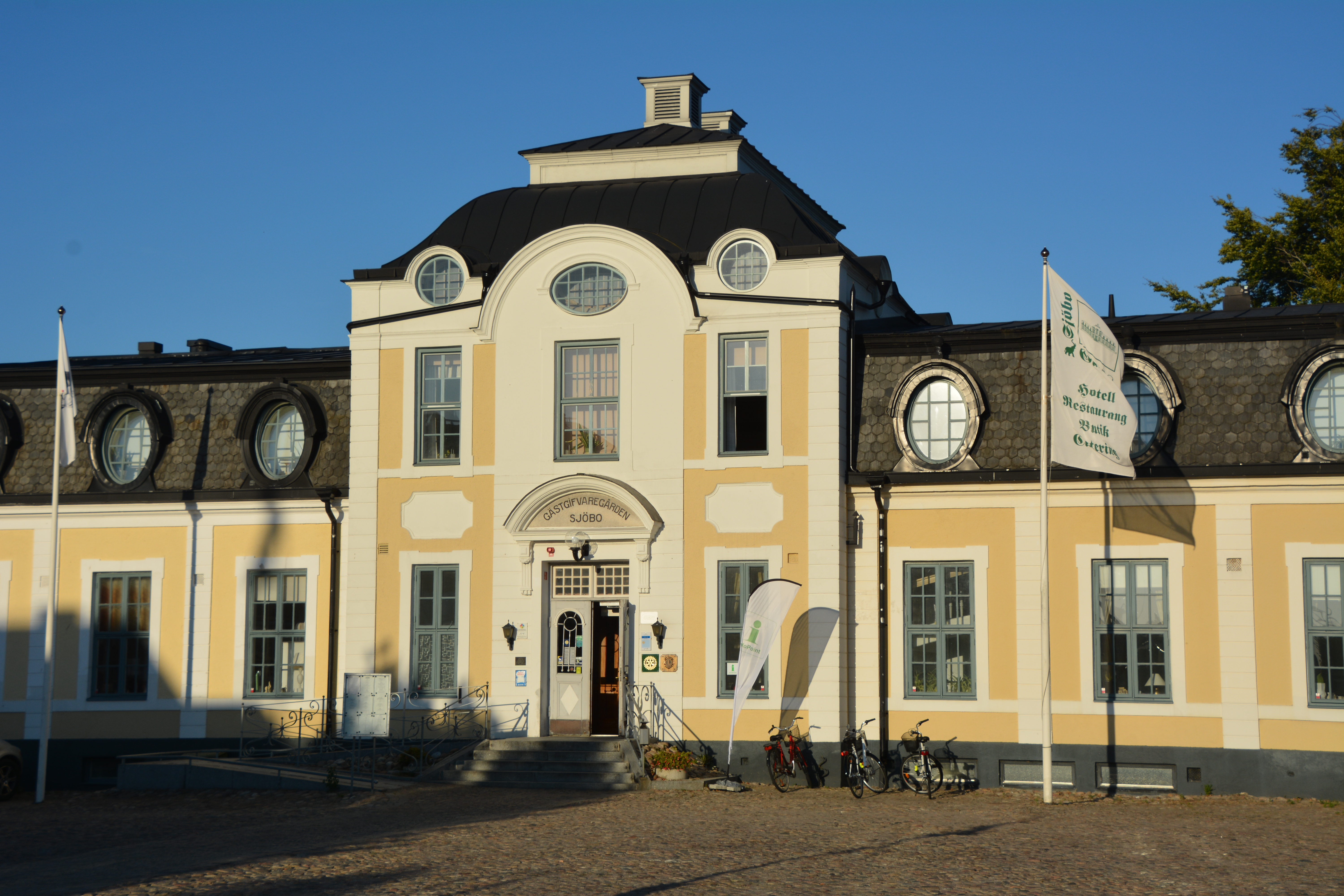 Sjöbo Gästis